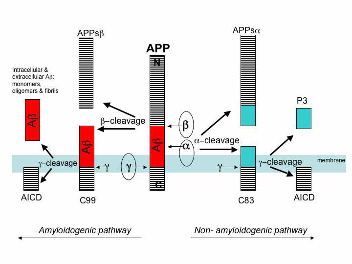 APP metabolism by the secretase enzymes. APP is sequentially cleaved by BACE1, the β-secretase, and γ-secretase, a complex comprised of presenilin, nicastin, Aph1 and Pen2, to generate Aβ. BACE1 cleavage of APP is a prerequisite for Aβ formation and is putatively the rate-limiting step in Aβ genesis. BACE1 cleavage of APP forms the N-terminus of the peptide, and two cleavage fragments are liberated: APPsβ, a secreted ectodomain, and C99, a membrane bound fragment. C99 is the substrate for γ-secretase, and C99 cleavage generates the AICD together with the C-terminus of Aβ. Aβ formation is prevented by the activities of α-secretase, which has been identified as TACE, ADAM9 and ADAM10. α-secretase cleaves APP to generate the secreted ectodomain, APPsα and membrane bound fragment, C83. C83 is subsequently cleaved by the γ-secretase complex to yield the 3 KDa fragment, P3 and the AICD. Cole and Vassar Molecular Neurodegeneration 2007 2:22